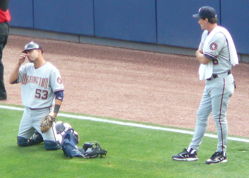 User:Chrisjnelson agreed to license this image of Nieves_StClaire.jpg under a free attribution license. Any use of this image must be attributed; this means that Photo by :en:User:Chrisjnelson|Chris Nelson should be in the picture caption. 07:47, 24 April 2008 . . Chrisjnelson . . 848×608 (545 KB)